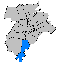 Map of Luxembourg City, Luxembourg, with the boundaries of the city's twenty-four quarters demarcated and the quarter of Gasperich highlighted in blue.